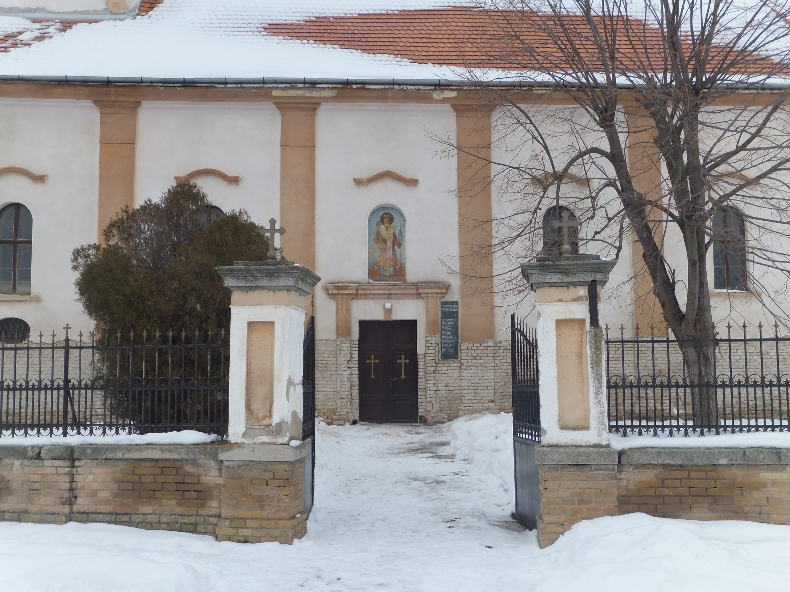 Church of Saint Nicholas in Dobrinci